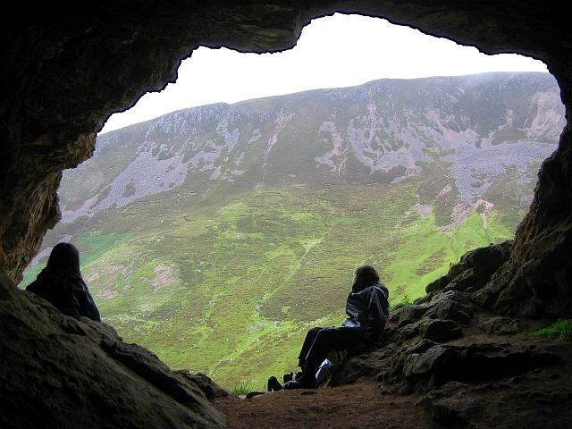 Inside looking out, Inchnadamph Bone Cave Inside one of the Inchnadamph Bone Caves looking across to the other side of the valley